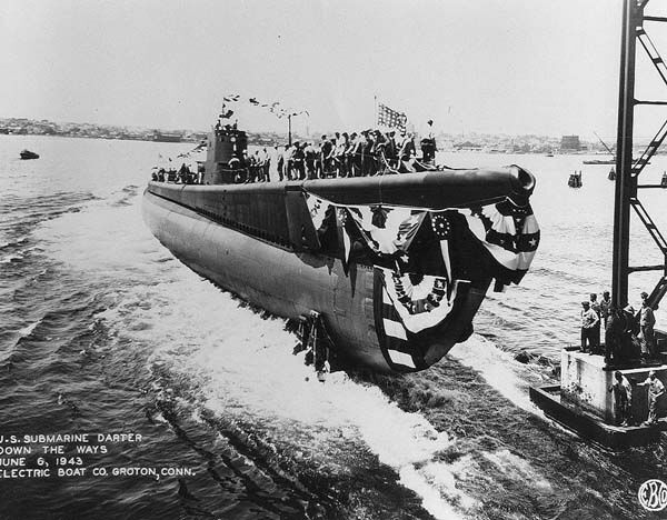 USS Darter; USS Darter (SS-227), "Down the Ways," June 6th, 1943. (U.S. Navy Official Photo)